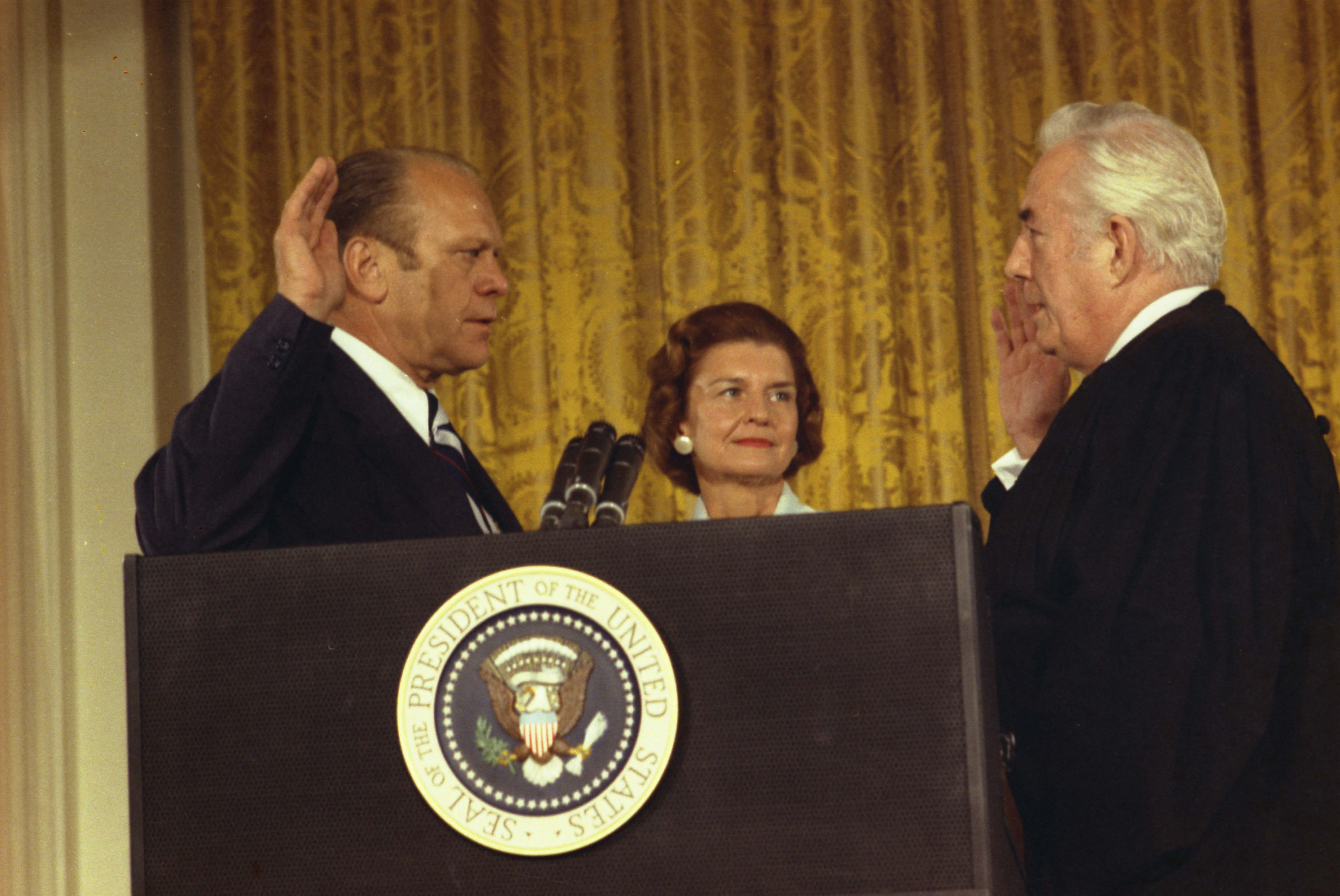 Photograph of Chief Justice Warren Burger administering the Oath of Office to President Gerald R. Ford while Betty Ford looks on.